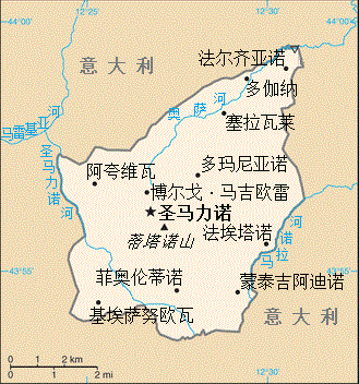 Map of San Marino.